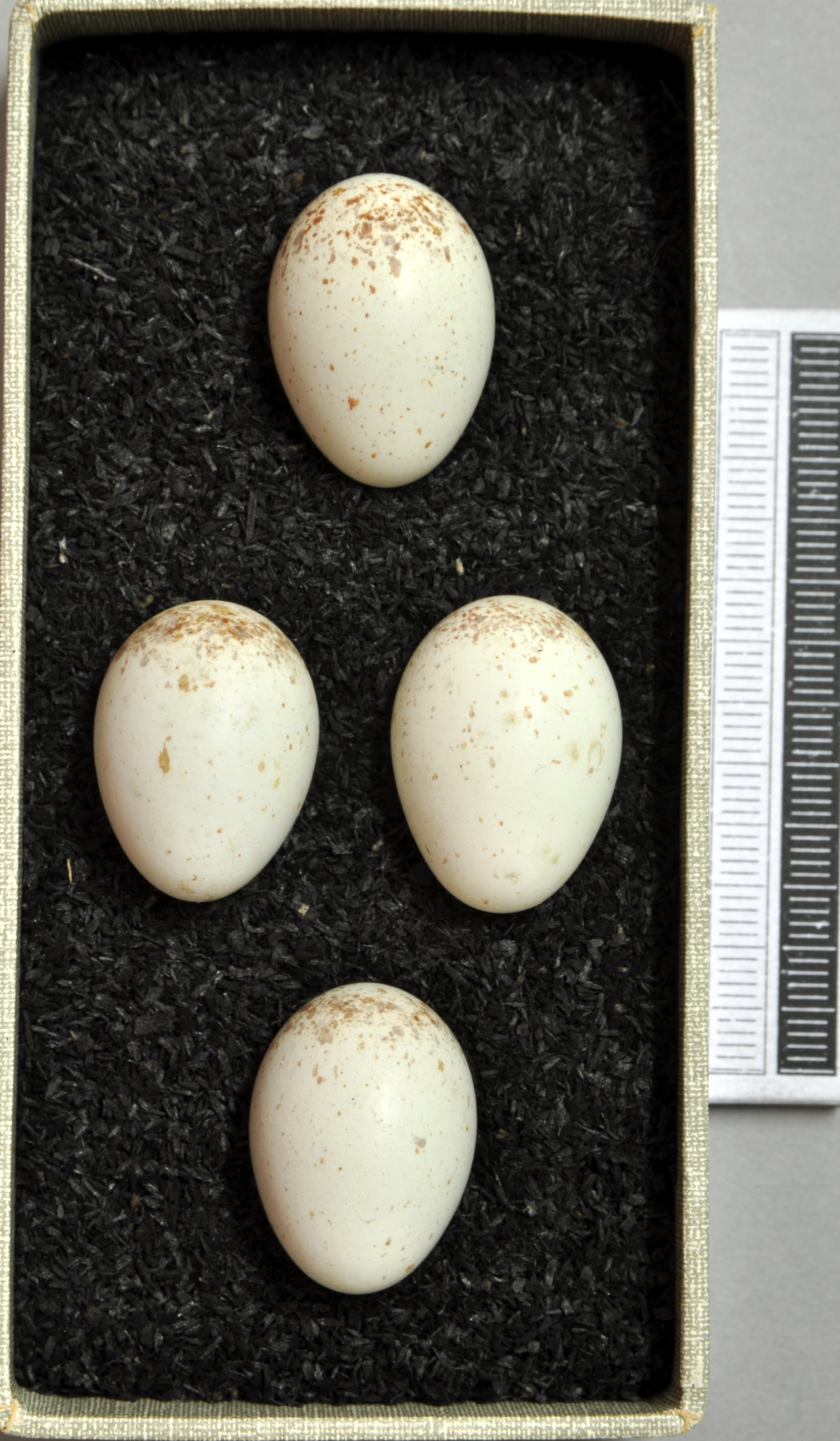 Black wheatear Oenanthe leucura , egg, Coll. Museum Wiesbaden